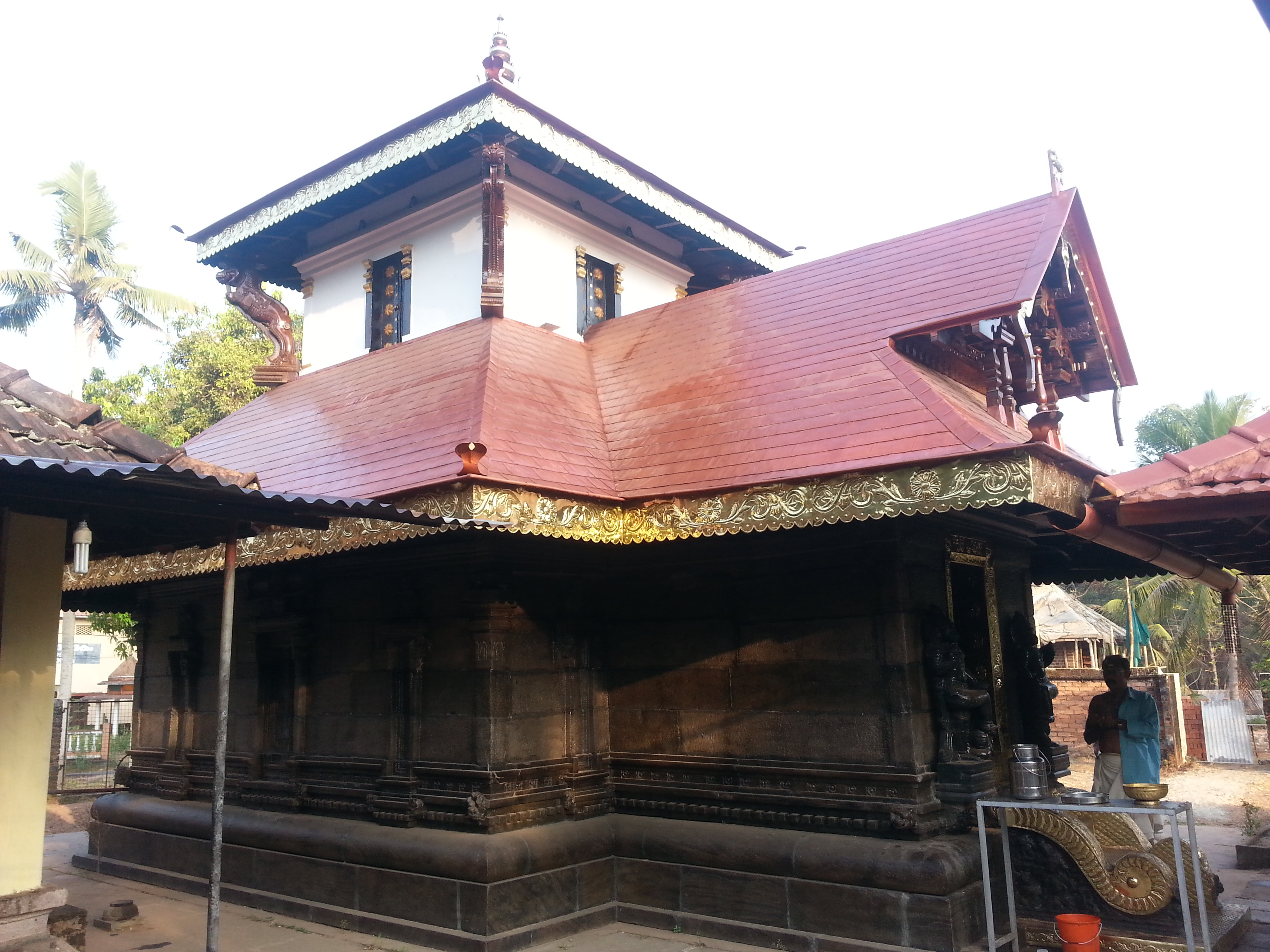 Niranam Thrikapaleeswaram Temple Sreekovil